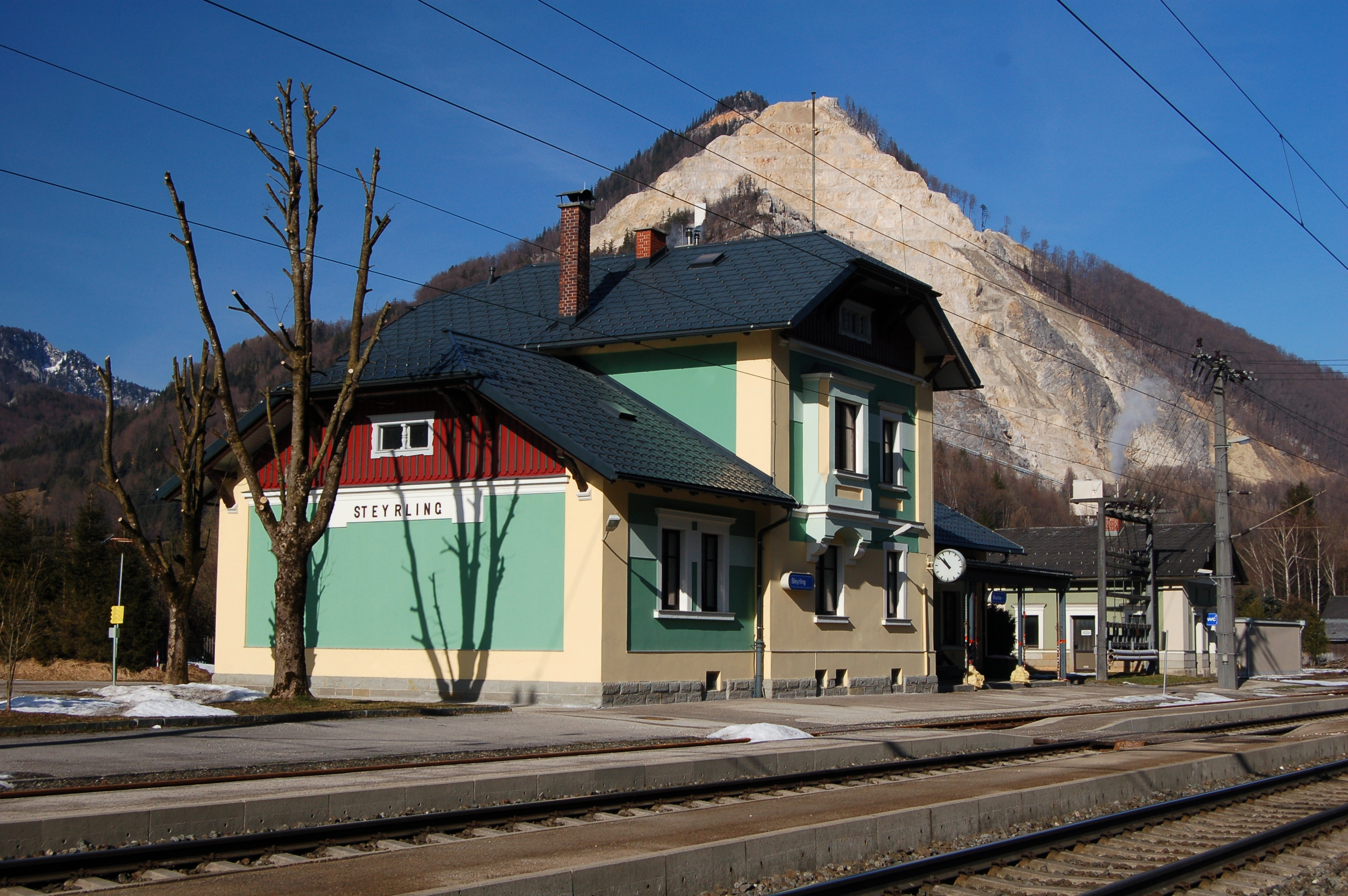 Station Steyrling, behind Brennet (1249m) with the chalk quarry Preisegg. Municipality Klaus an der Pyhrnbahn.